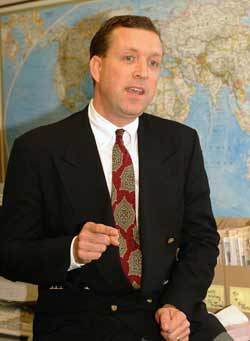 Thomas Barnett. Naval War College Public Affairs Office photo by Jon Hockersmith.